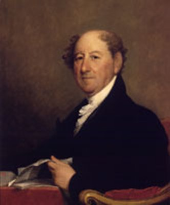 Rufus King, american diplomat and politician